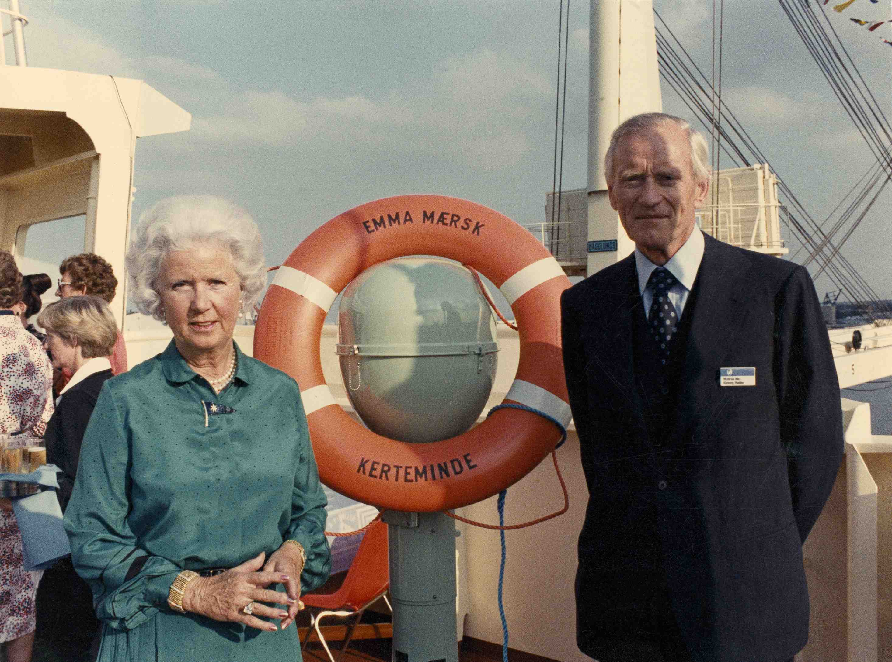 Mærsk Mc-Kinney Møller with his beloved wife Emma in 1979, at the inauguration of a vessel named after her.